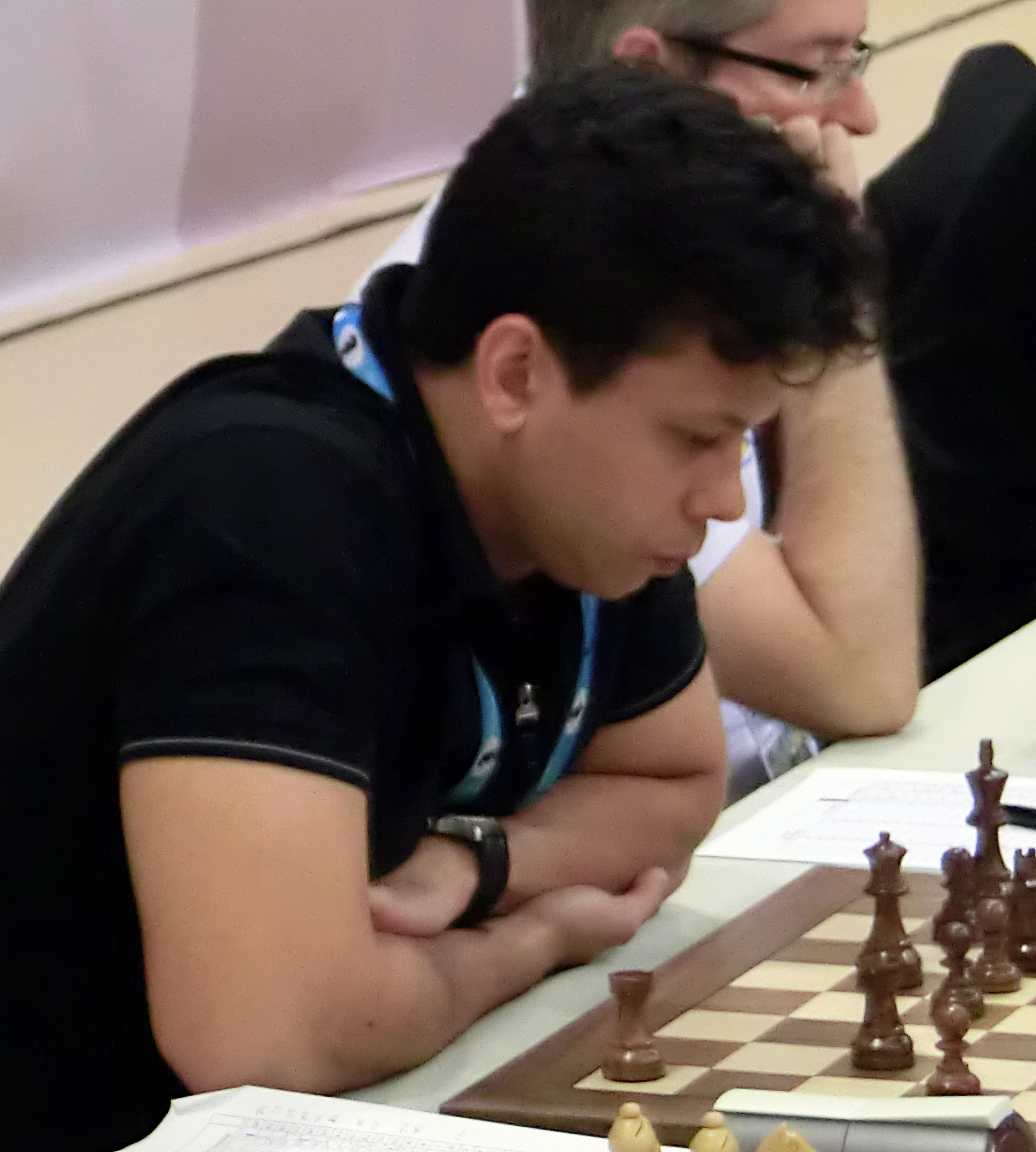 Rafael Leitão, chess grandmaster from Brazil